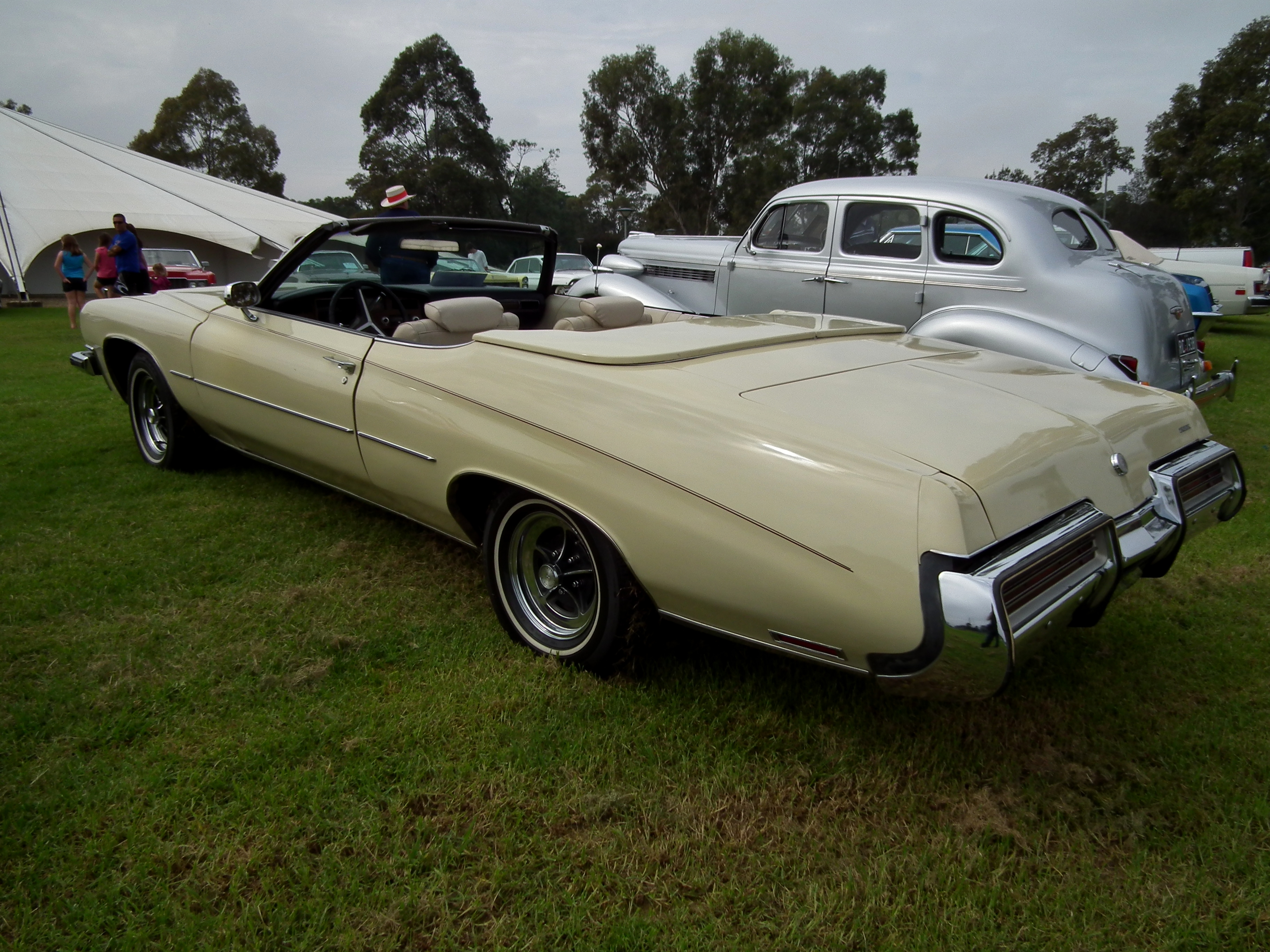 1973 Buick Centurion convertible. Taken at the General Motors Display Day, held in the grounds of Penrith Panthers Club, Penrith NSW.